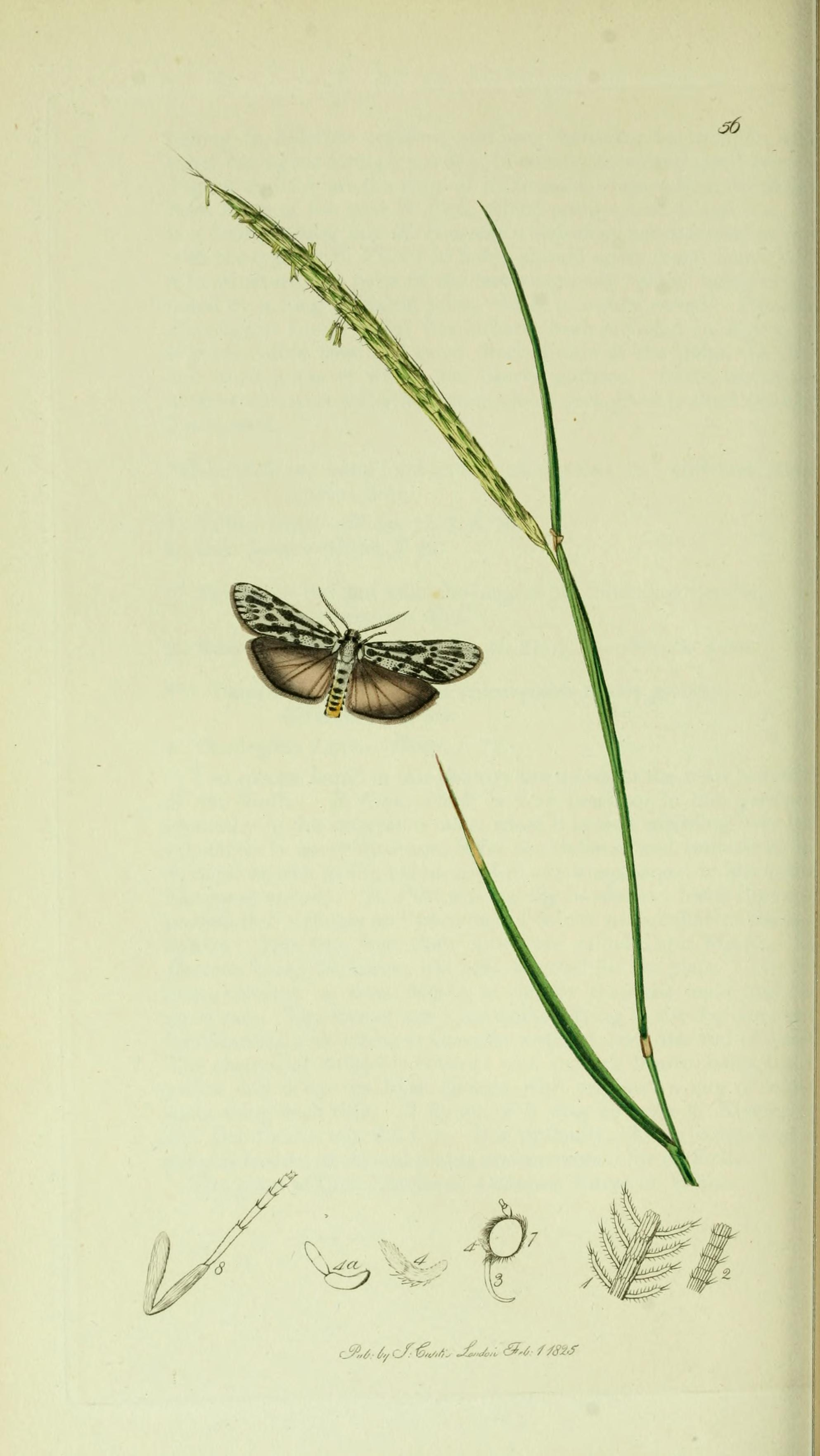 An illustration from British Entomology by John Curtis. Eulepia cribrum or Coscinia cribraria (Speckled Footman).